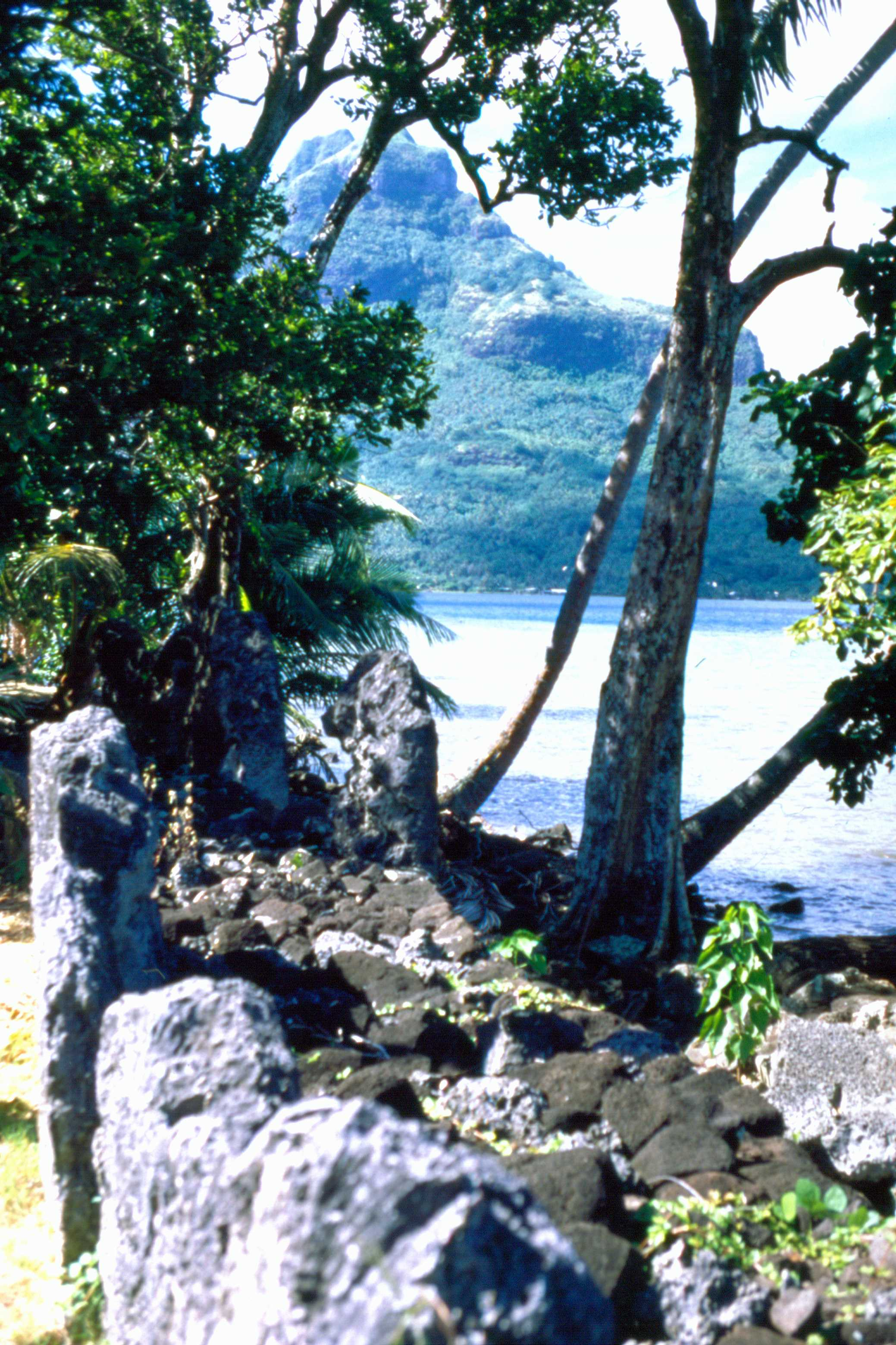 Fare Opu marae, Bora Bora, Society Islands, French Polynesia